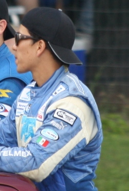 NASCAR driver Antonio Perez during driver introductions at the 2010 Bucyros 200 the first Nationwide Series race at Road America.